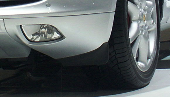 detail foto of a wheel spoiler on a Porsche Cayenne